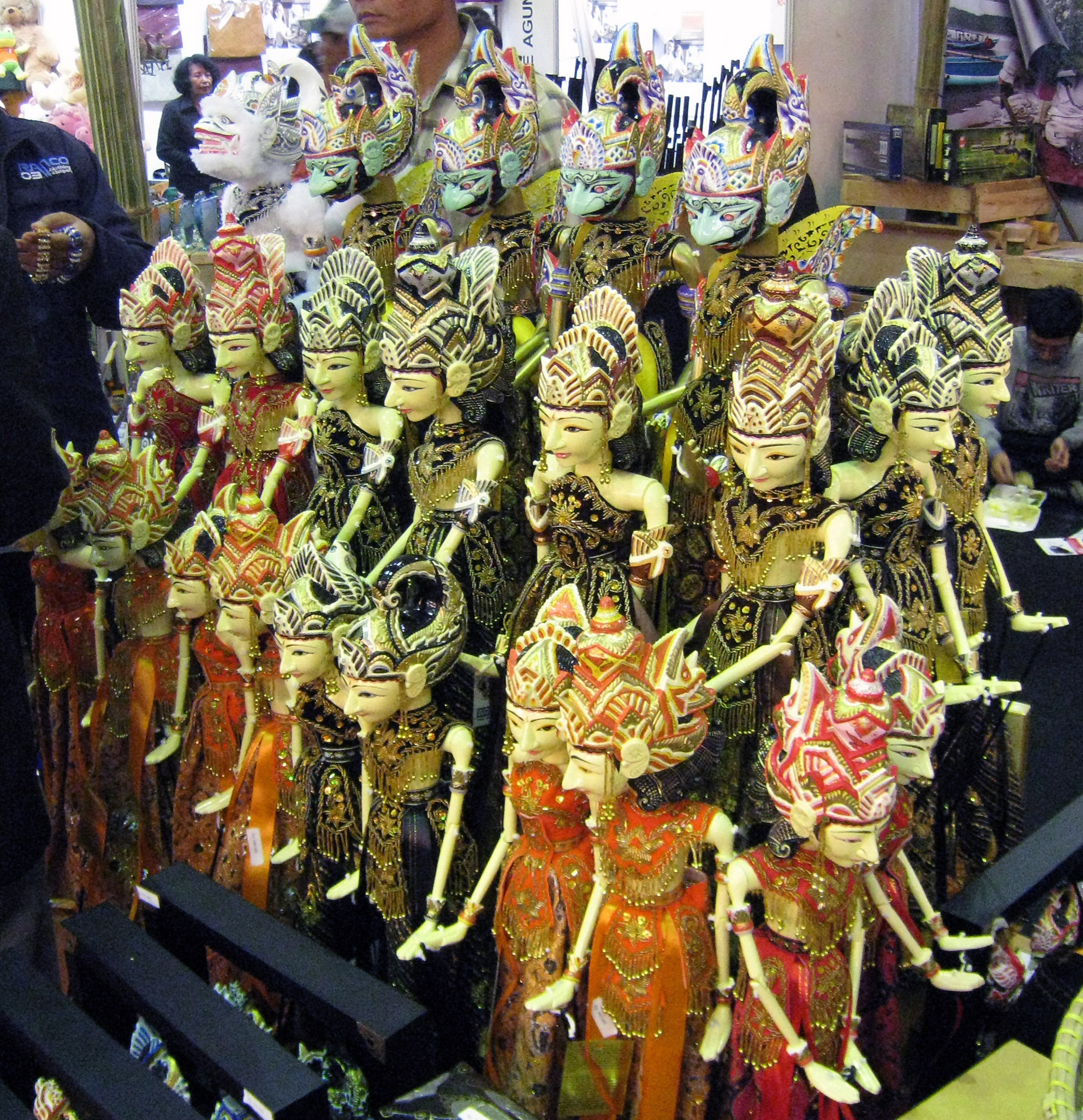 Rows of Wayang Golek display, the Sundanese wooden puppet from West Java, Indonesia, displayed in Jakarta Fair 2010. The Wayang Golek characters are Hanuman on top left, several Gatutkaca on top row, and pairs of Rama and Shinta on center and botom rows.